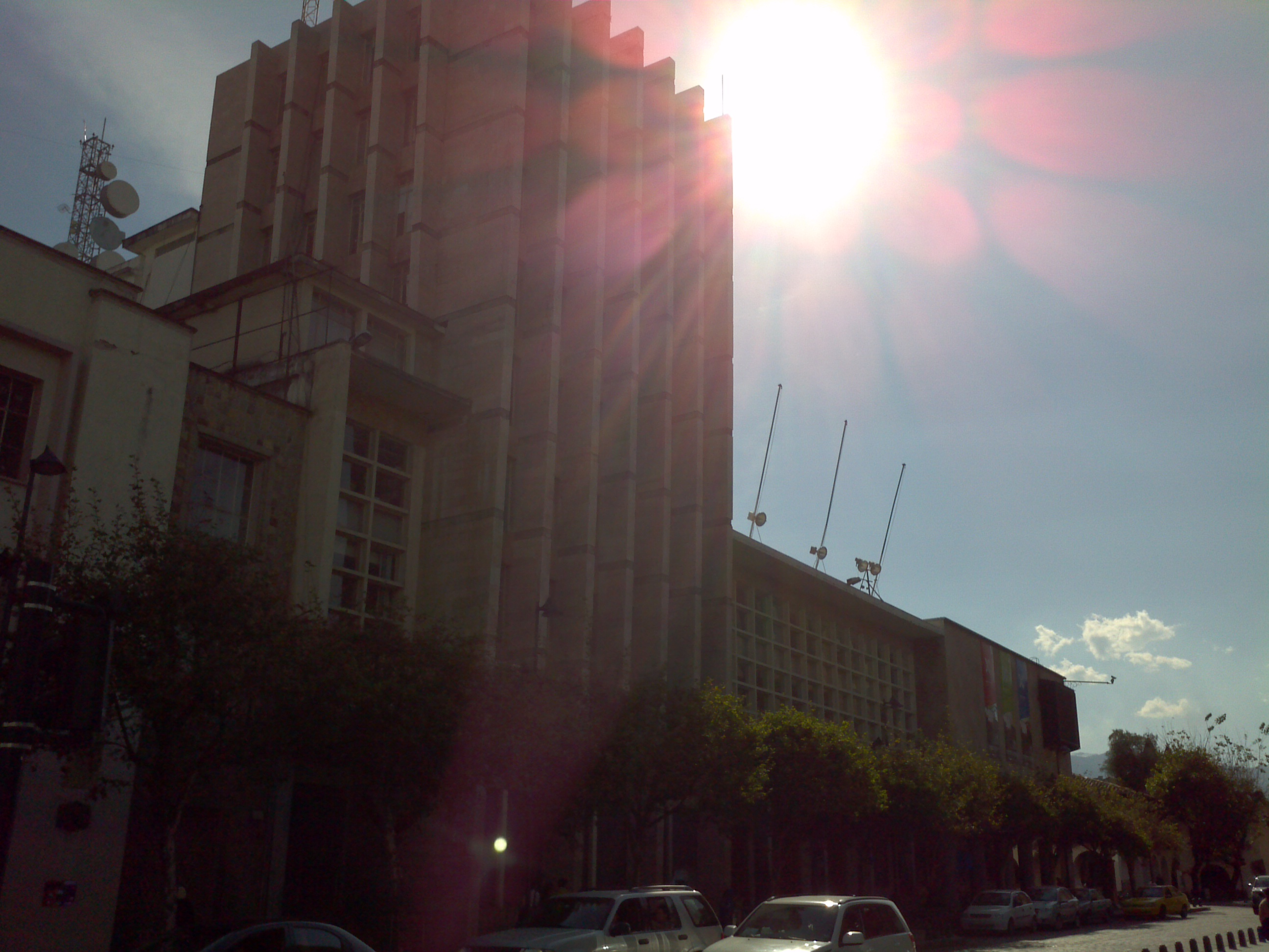 View of the second building of the Alcaldía de Cuenca fron the Calderón park.